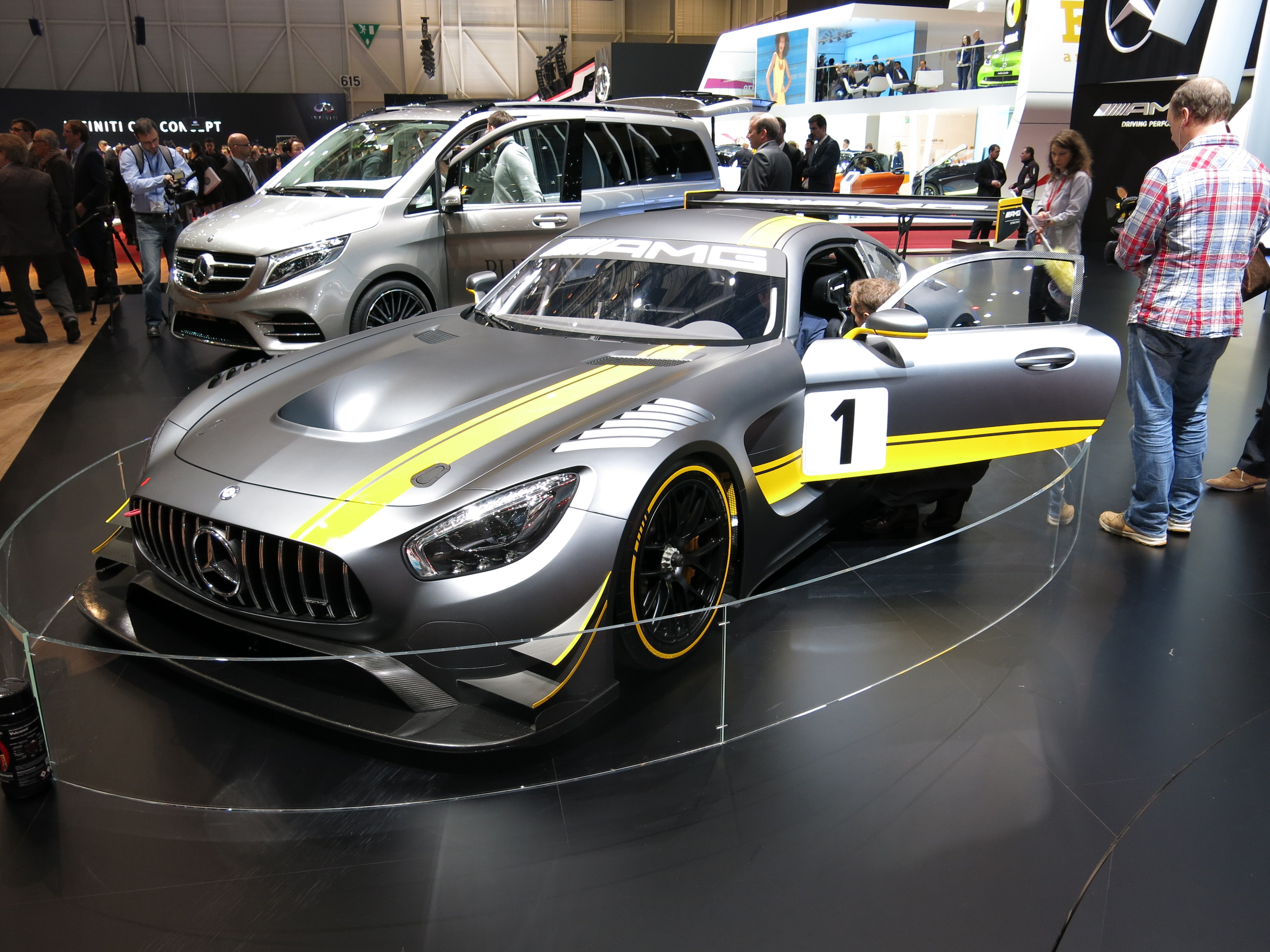 Geneva Motor Show 2015 (photo taken on the first press day)